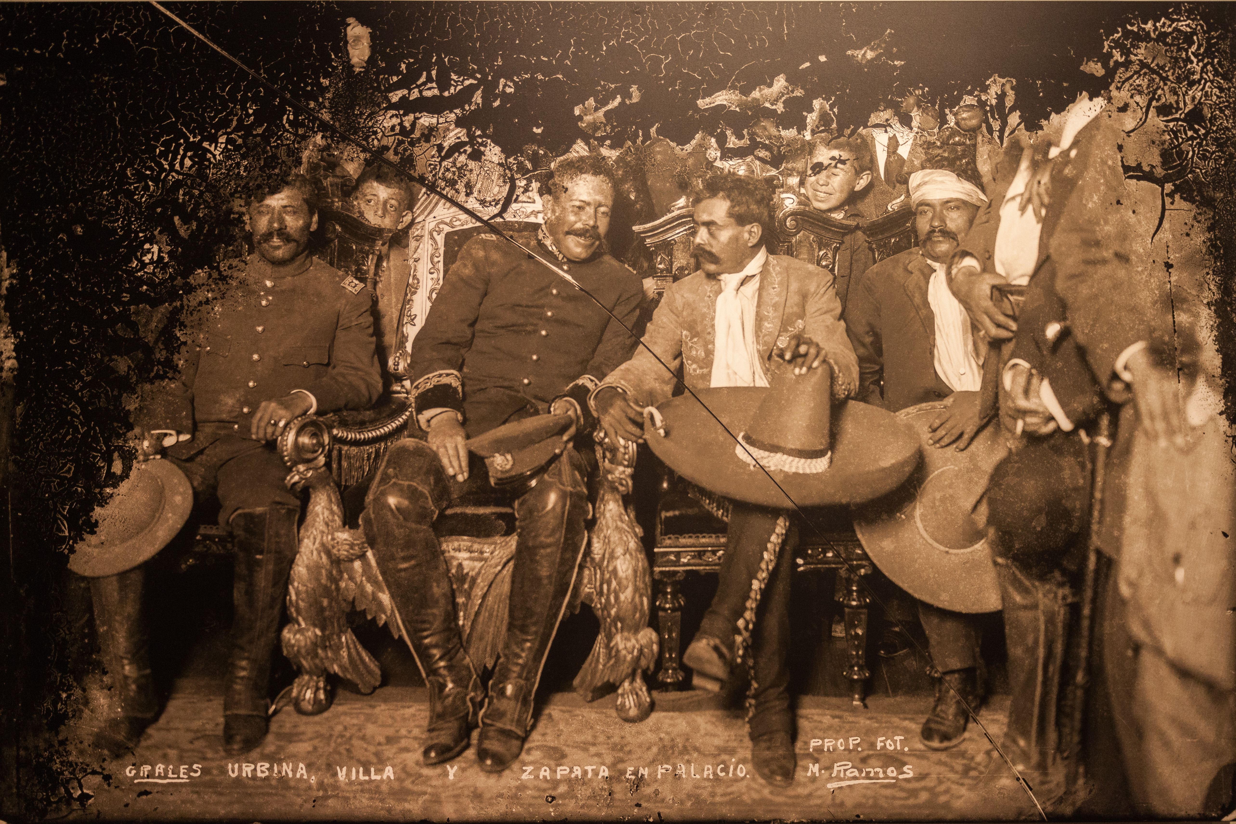 Tomás Urbina, Pancho Villa and Emiliano Zapata in the National Palace, Museum of the City of Mexico, Mexico City, Mexico